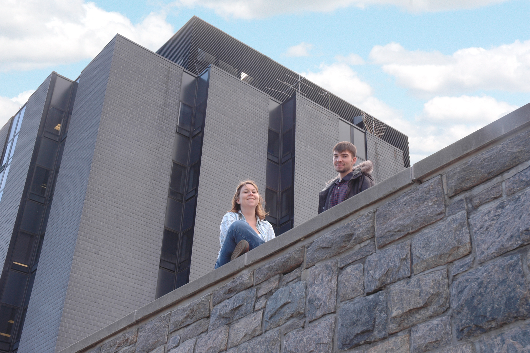 Faculty Office Building, State University of New York, Canton